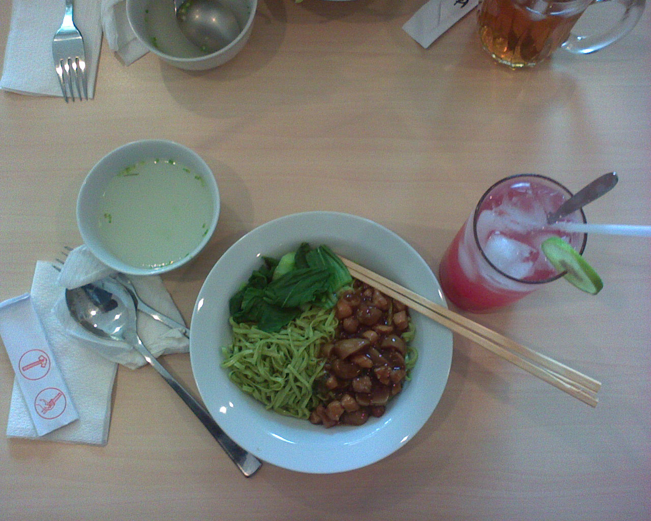 Green noodle